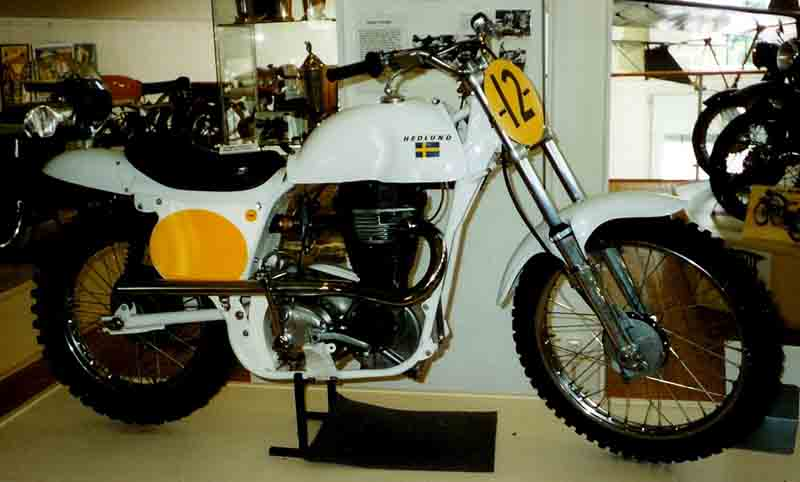 Hedlund 500 cc 1965